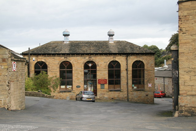 Nortonthorpe Mills, Scissett Originally owned by G H Norton, woollen manufacturers but now in multiple occupancy. The central building is an engine house containing a Pollit and Wigzell horizontal tandem compound steam engine from 1886. This is one of the very few in situ mill engines in Yorkshire.